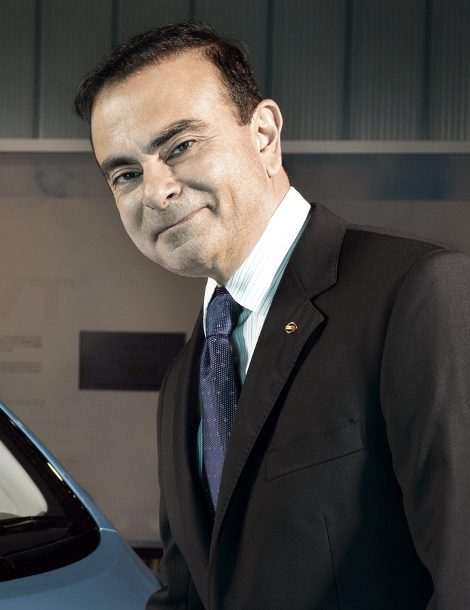 Nissan CEO Carlos Ghosn charges a Nissan Leaf, the first mass-produced zero-emission vehicle.